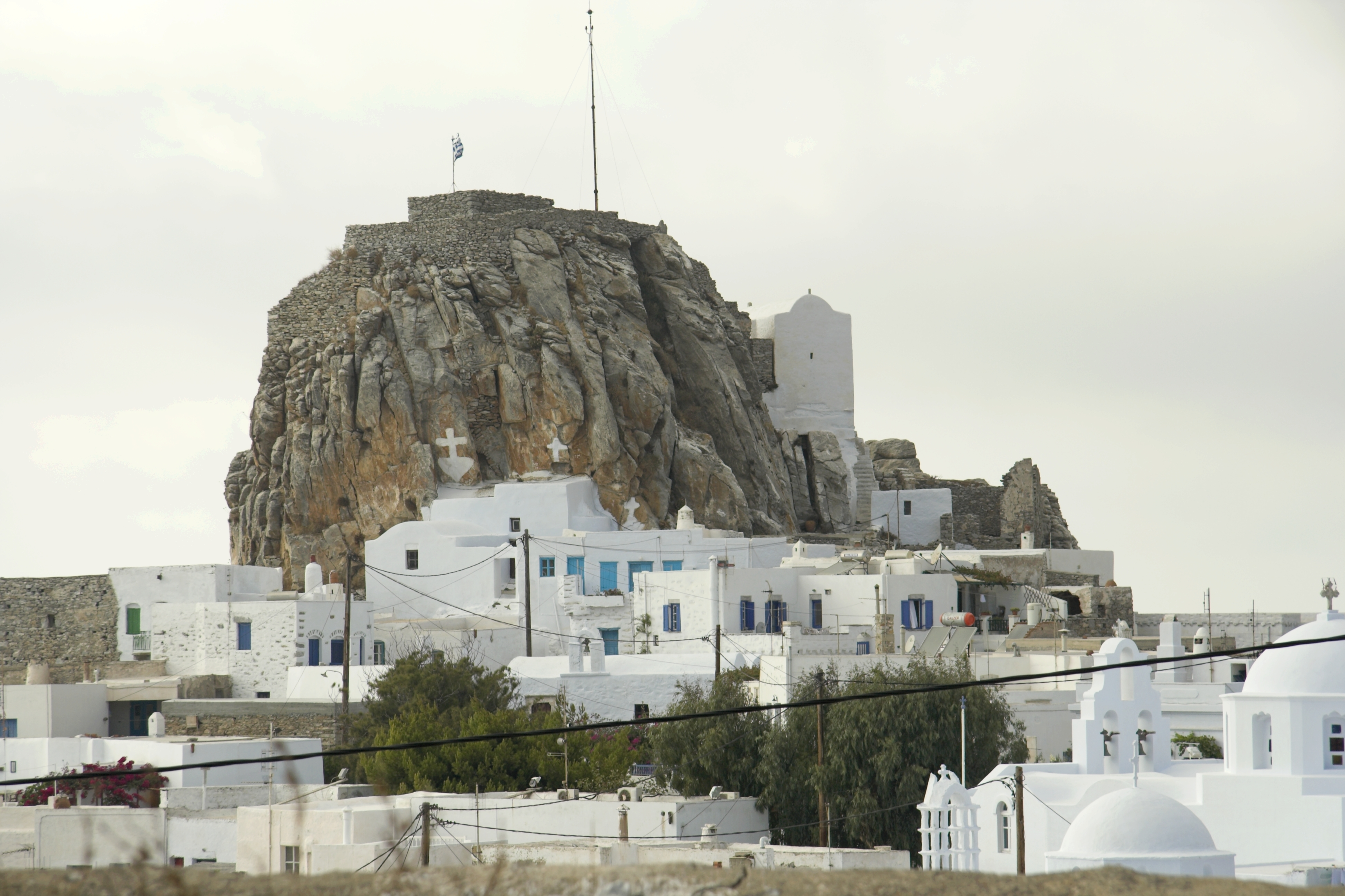 Chora of Amorgos. Kastro (castle).